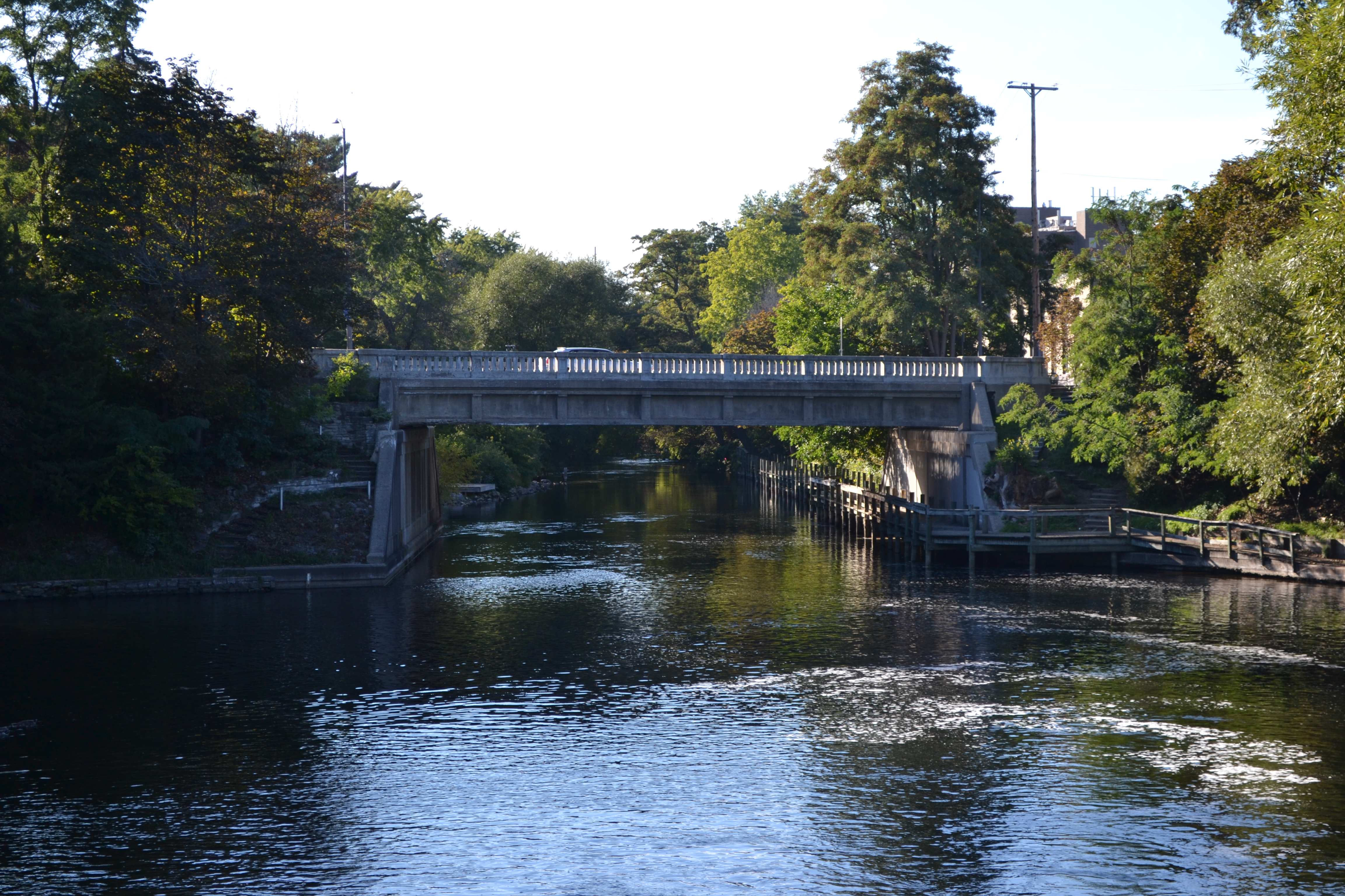 South Union Street-Boardman River Bridge, S. Union St. over Boardman River Traverse City